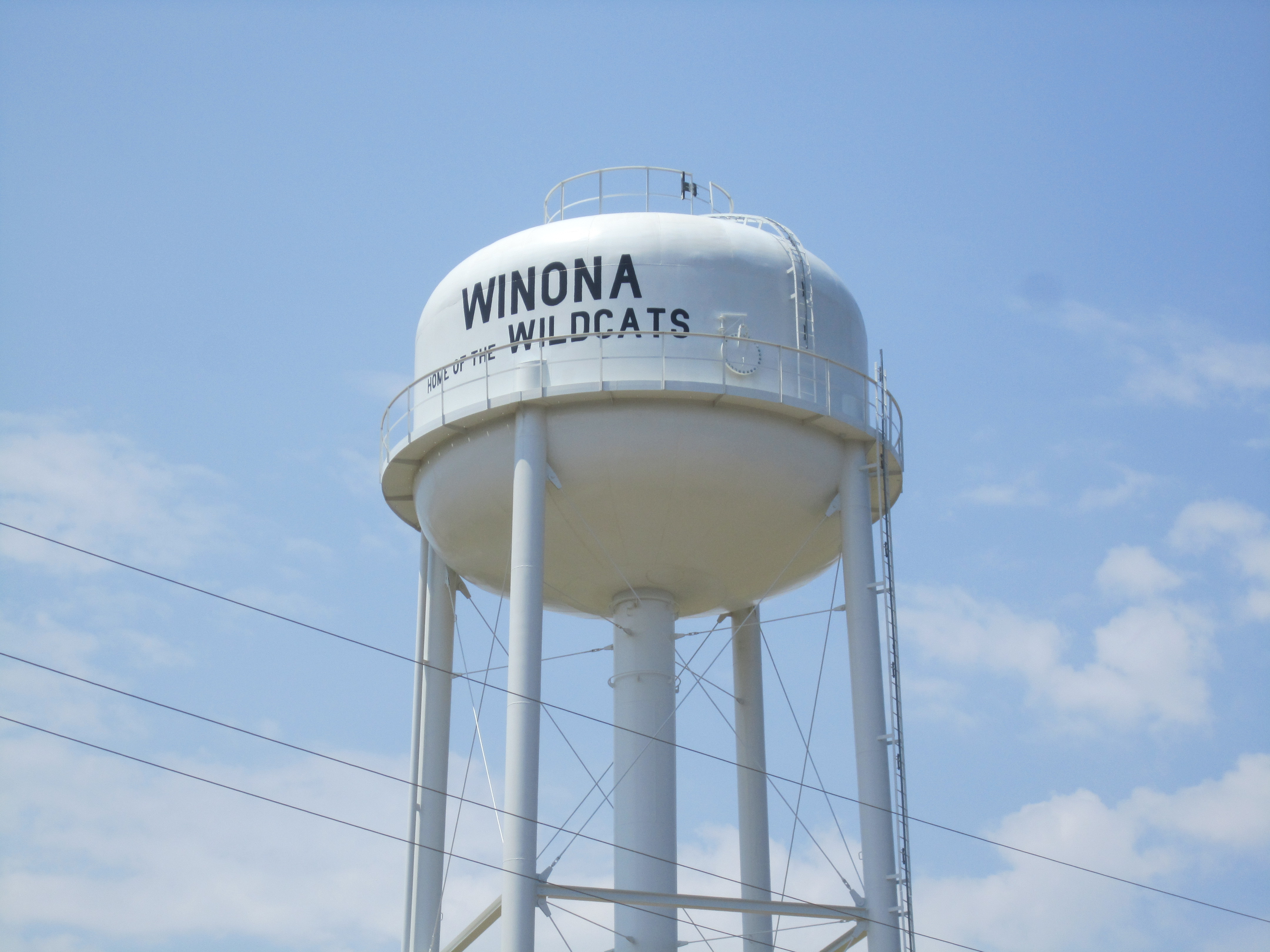 I took photo of water tower in Winona, TX.